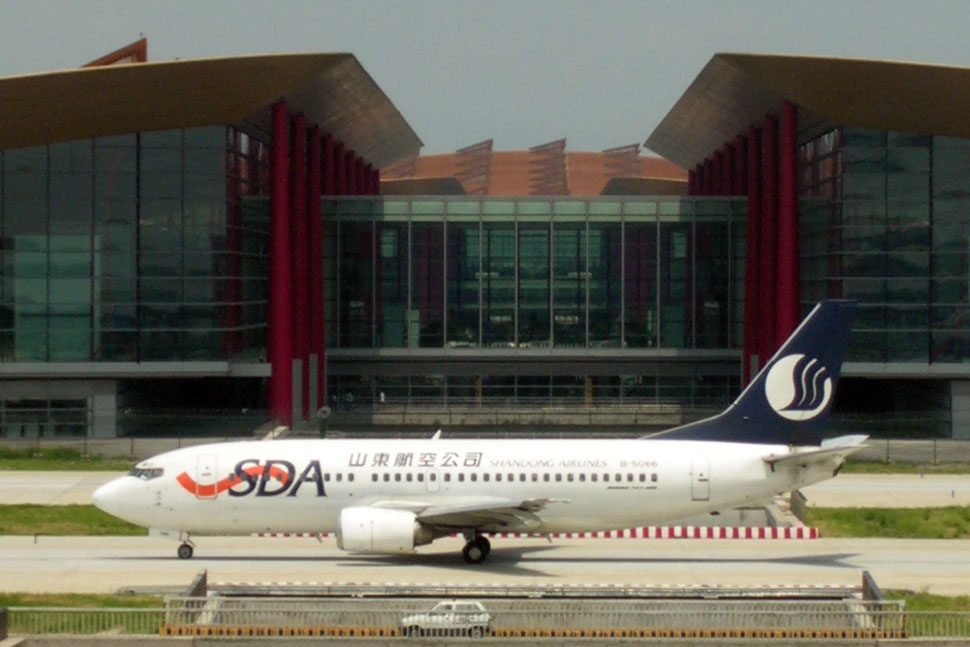 A Boeing 737-36Q aircraft (B-5066) of Shandong Airlines taxing outside terminal 3 at Beijing Capital International Airport.